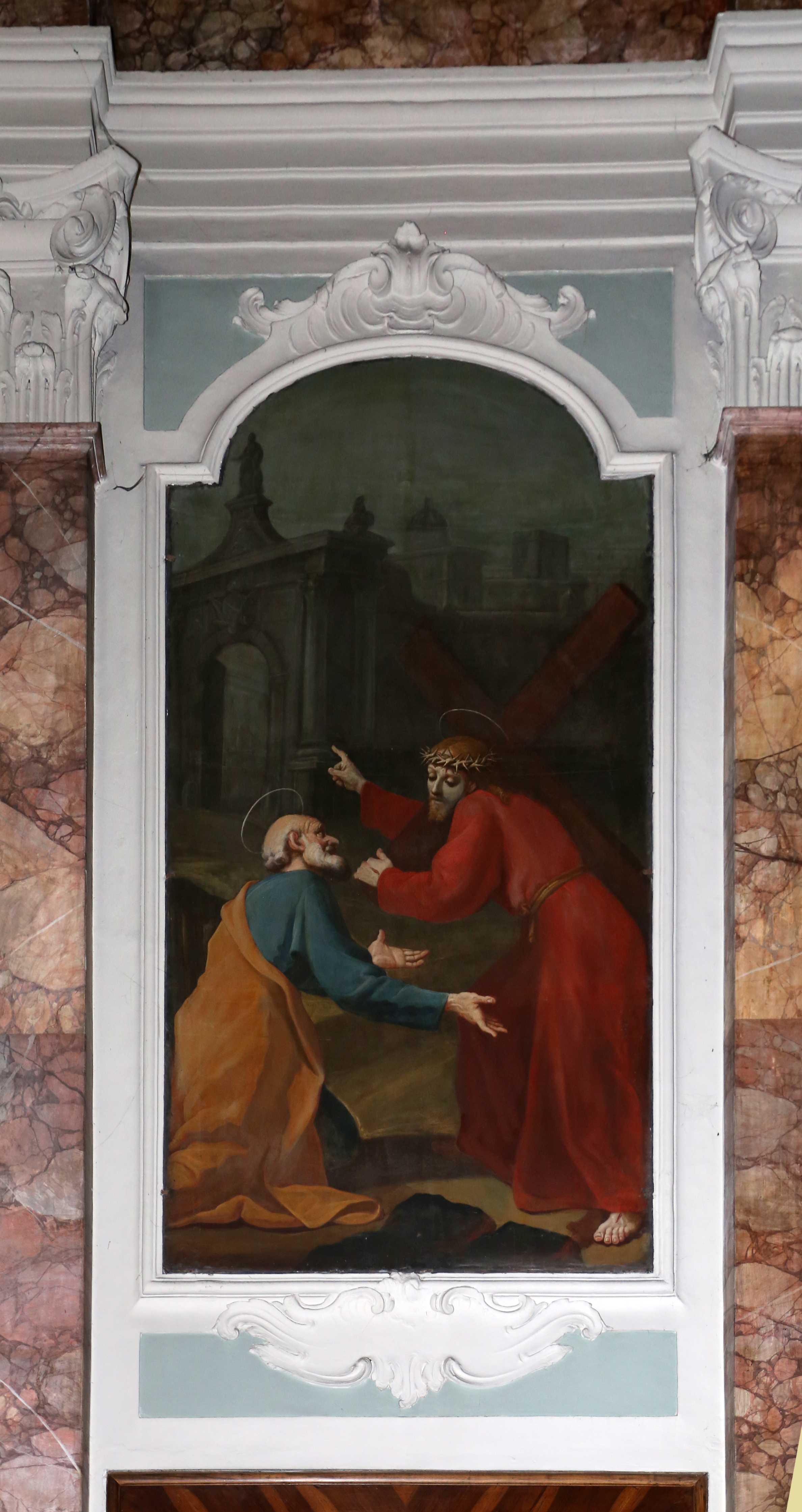 Santissimo Crocifisso (Borgo a Buggiano)